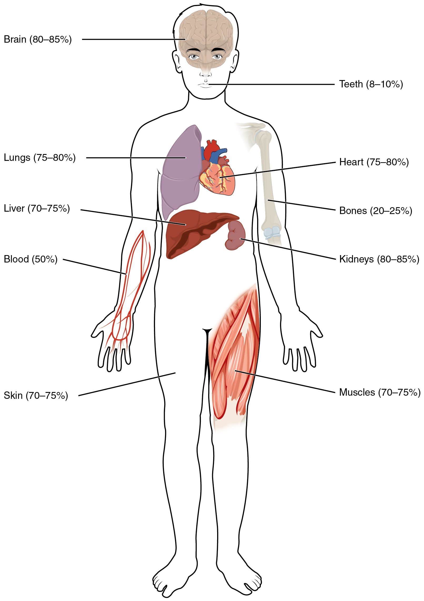 Illustration from Anatomy & Physiology, Connexions Web site. Jun 19, 2013.